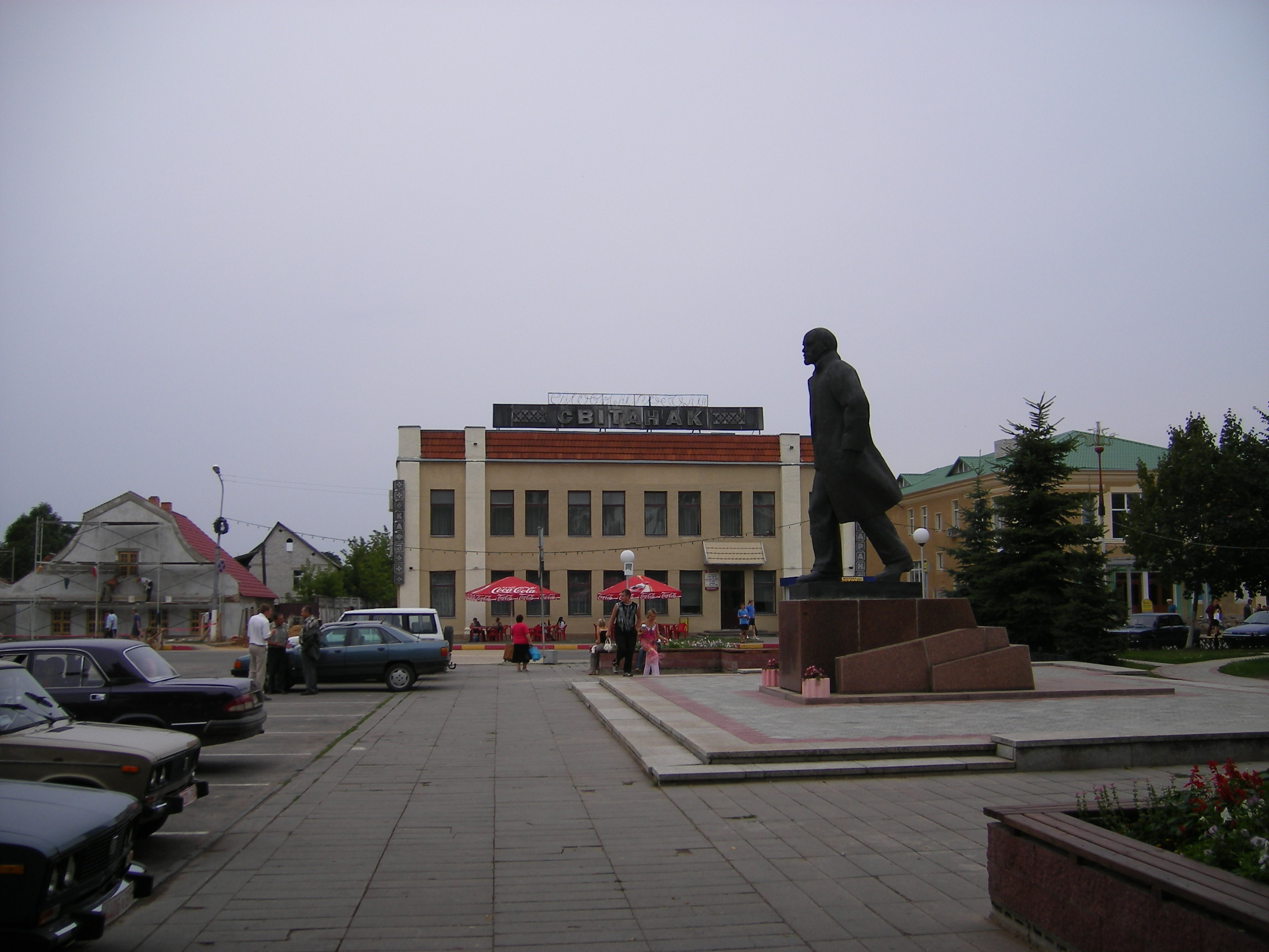 Pastavy, Main Square (pl. Svobody)